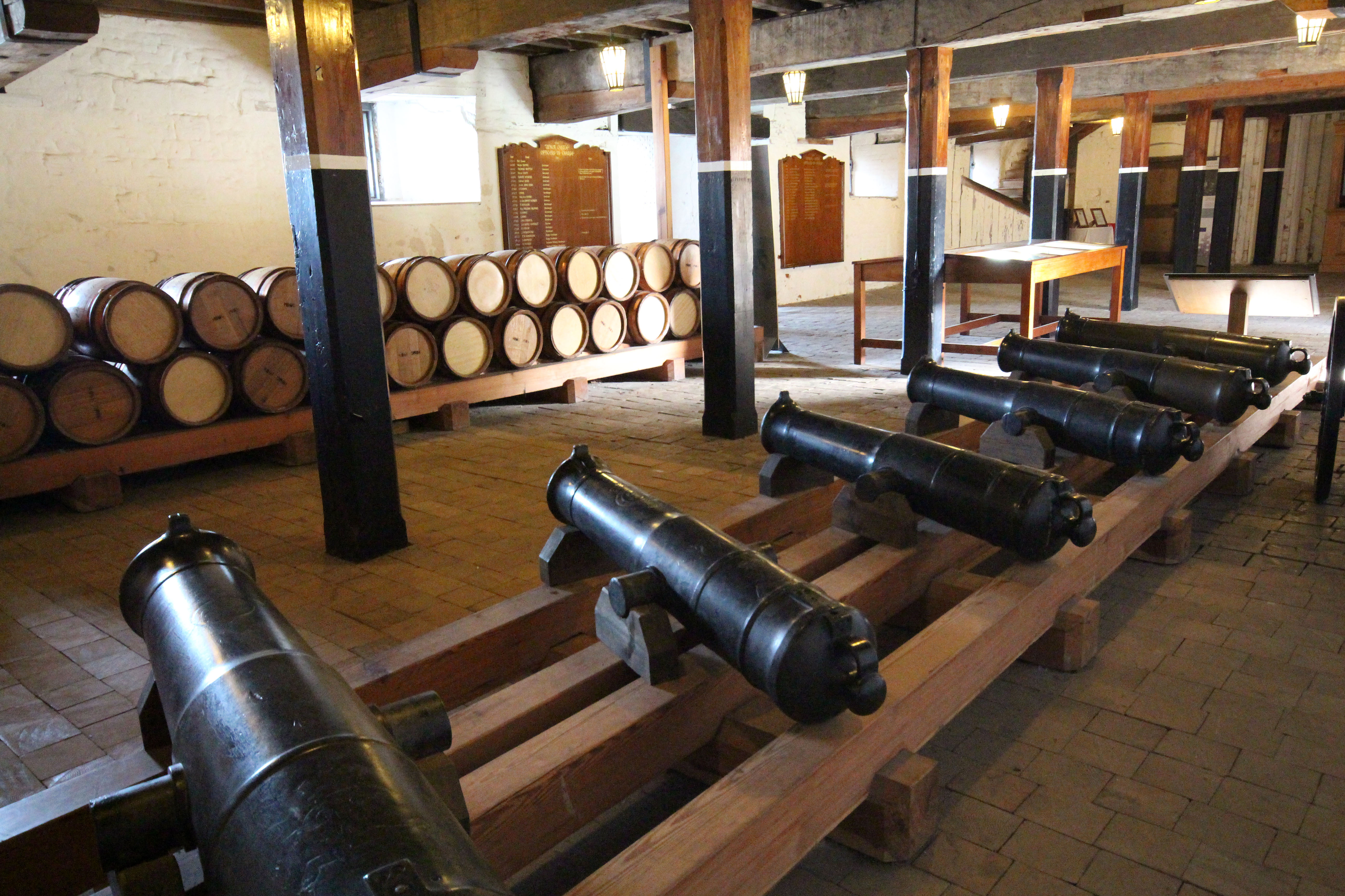 19th Century 12 Pounder bronze Howitzers on the ground floor of main block of Upnor Castle